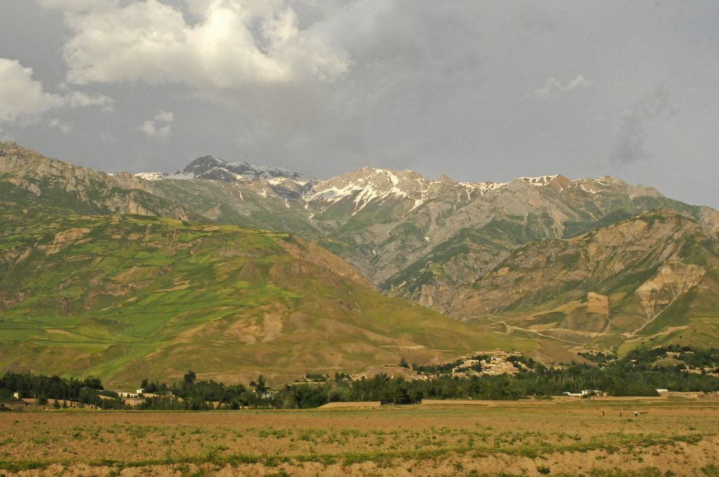 Khvahan city ,khwahan county